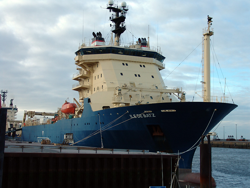 Cableship "Ile de Batz" in Calais port.